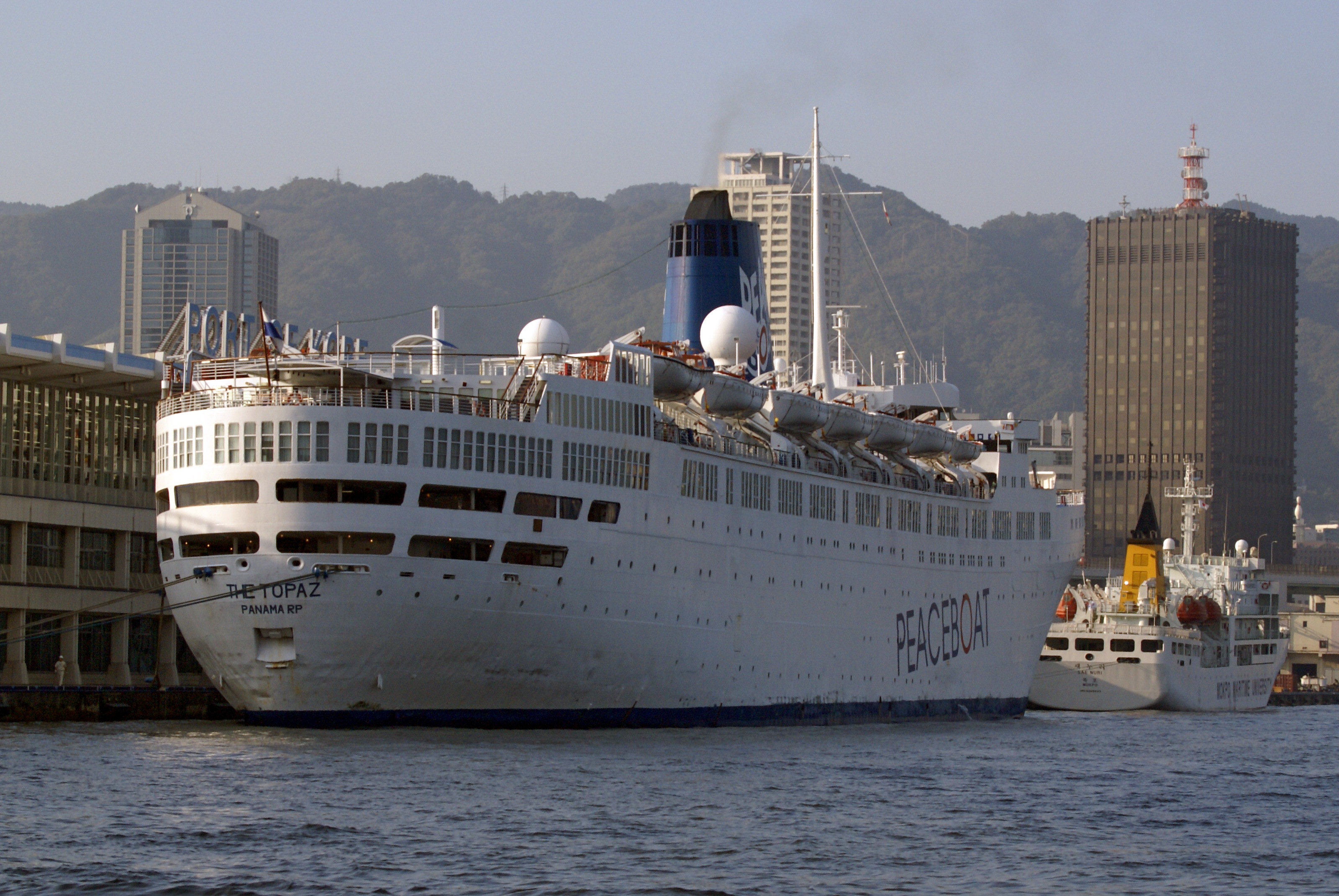 TOPAZ at Kobe Port Terminal of the Kobe harbor ( Kobe, Hyogo, Japan)